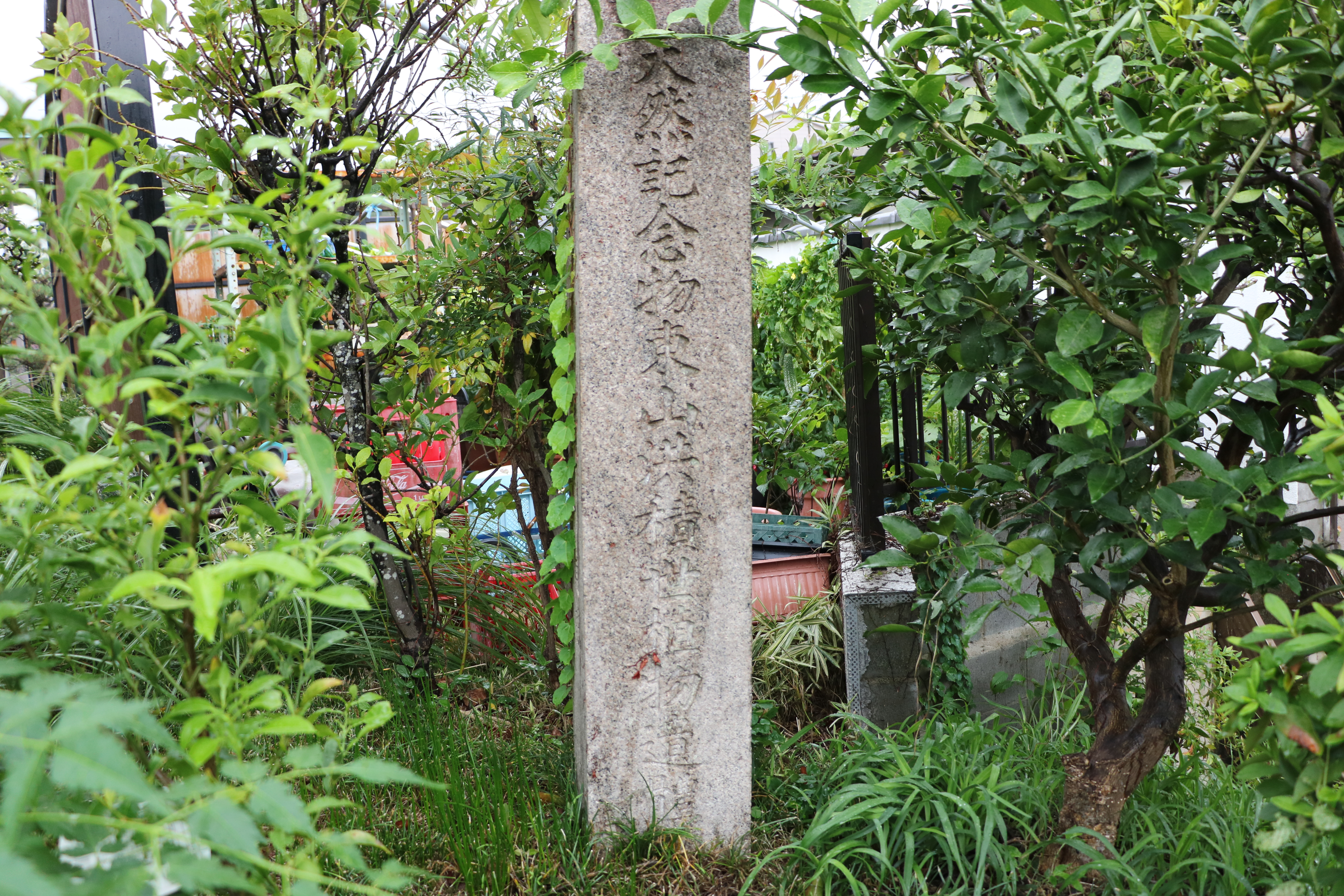 Stone monument in Higashiyama Pleistcene Strata containing plant fossils, natural monument of Japan.